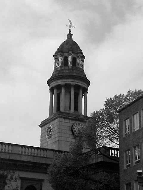 St Marylebone Parish Church